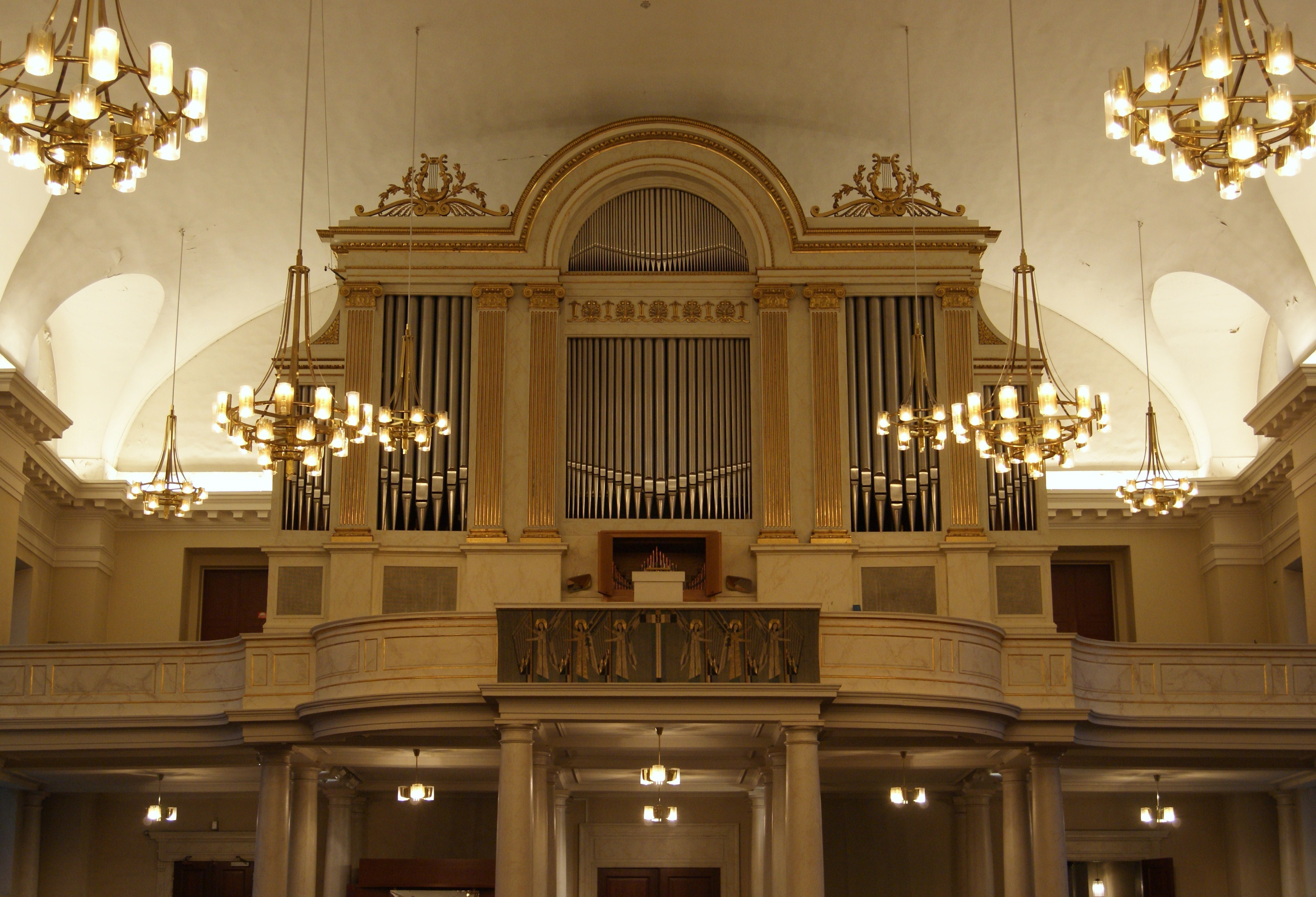 The organ in Gothenburg Cathedral, Sweden.